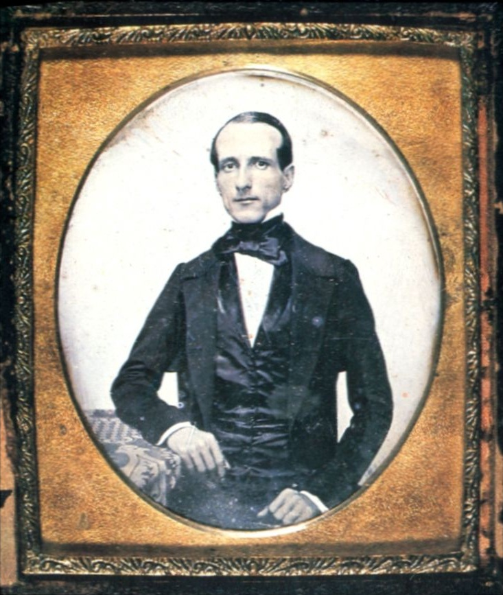 Daguerreotype of Zacarias de Góes Vasconcelos, Brazilian politician, 1850.